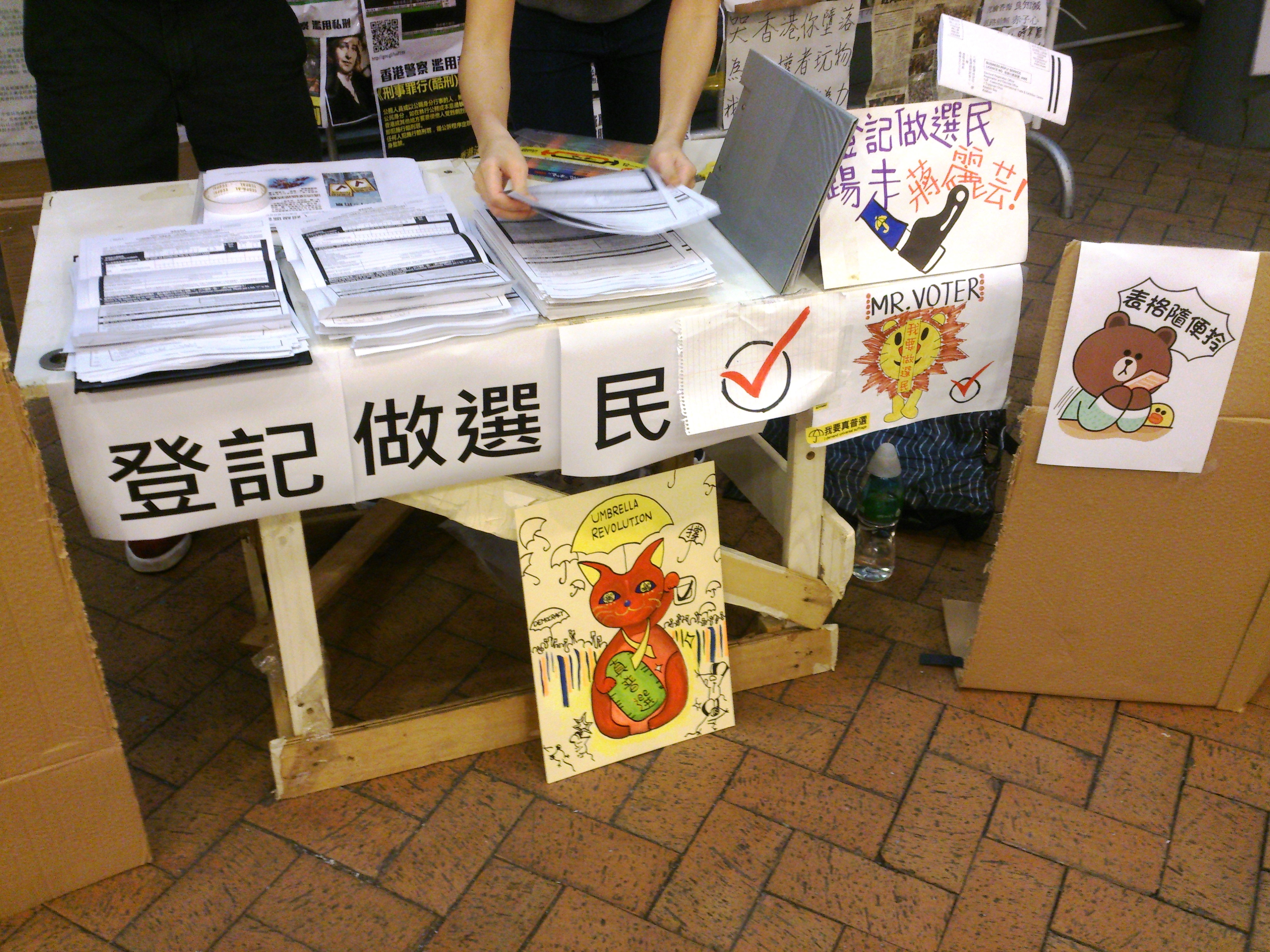 Voter registration booth on Harcourt Road near Admiralty Centre on 2014-10-29